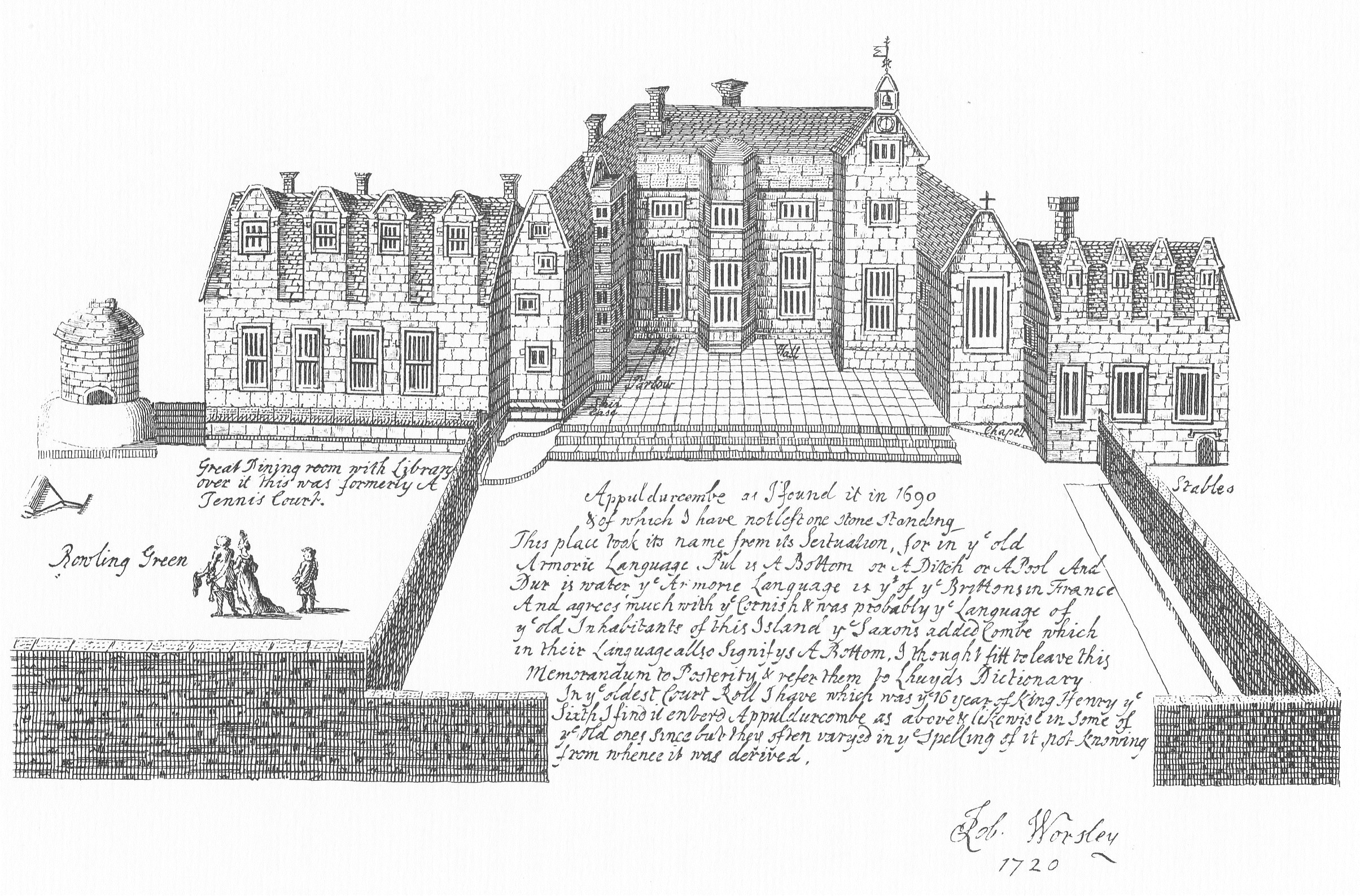 The Tudor Appuldurcombe House. Drawing by Sir Robert Worsley dated 1720, annotated as follows: "Appuldurcombe as I found it in 1690 & of which I have not left one stone standing. This place took its name from its situation for in ye old Armoric Language Pul is a Bottom or Ditch or A Pool And Dur is water. ye Armoric Language is ye of ye Brittons in France And agrees much with ye Cornish & was probably ye language of ye old inhabitants of this Island. ye Saxons added Combe which in their language signifies a Bottom. I thought fitt to leave this Memorandum to Posterity & refer them to Lhuyds Dictionary in ye oldest Court Roll I have which was ye 16 year of King Henry ye Sixth I find it entered Appuldurcombe as above & likewise in some of ye old ones since but they often varyed in ye spelling of it not knowing from whence it was derived." Signed "Rob. Worsley, 1720". Also annotated are, from l to r: "Bowling Green, Great Dining Room with library over it this was formerly a tennis court, Staircase, Parlour, Hall, Hall, Chapell, Stables" Published in Worsley, Sir Richard, History of the Isle of Wight, London, 1781, between pp.180/1.